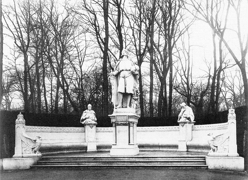 The monument in the former Siegesallee in Berlin commemorating the Margrave of Brandenburg Otto IV (called "with the arrow") (ca. 1238–1308), son of Margrave Johann I. The bust on the left commemorates the knight Johann von Kröcher (called "Droiseke"), that on the right Otto’s adviser Johann von Buch. Sculptor: Karl Begas. Unveiled on 22 March 1899.